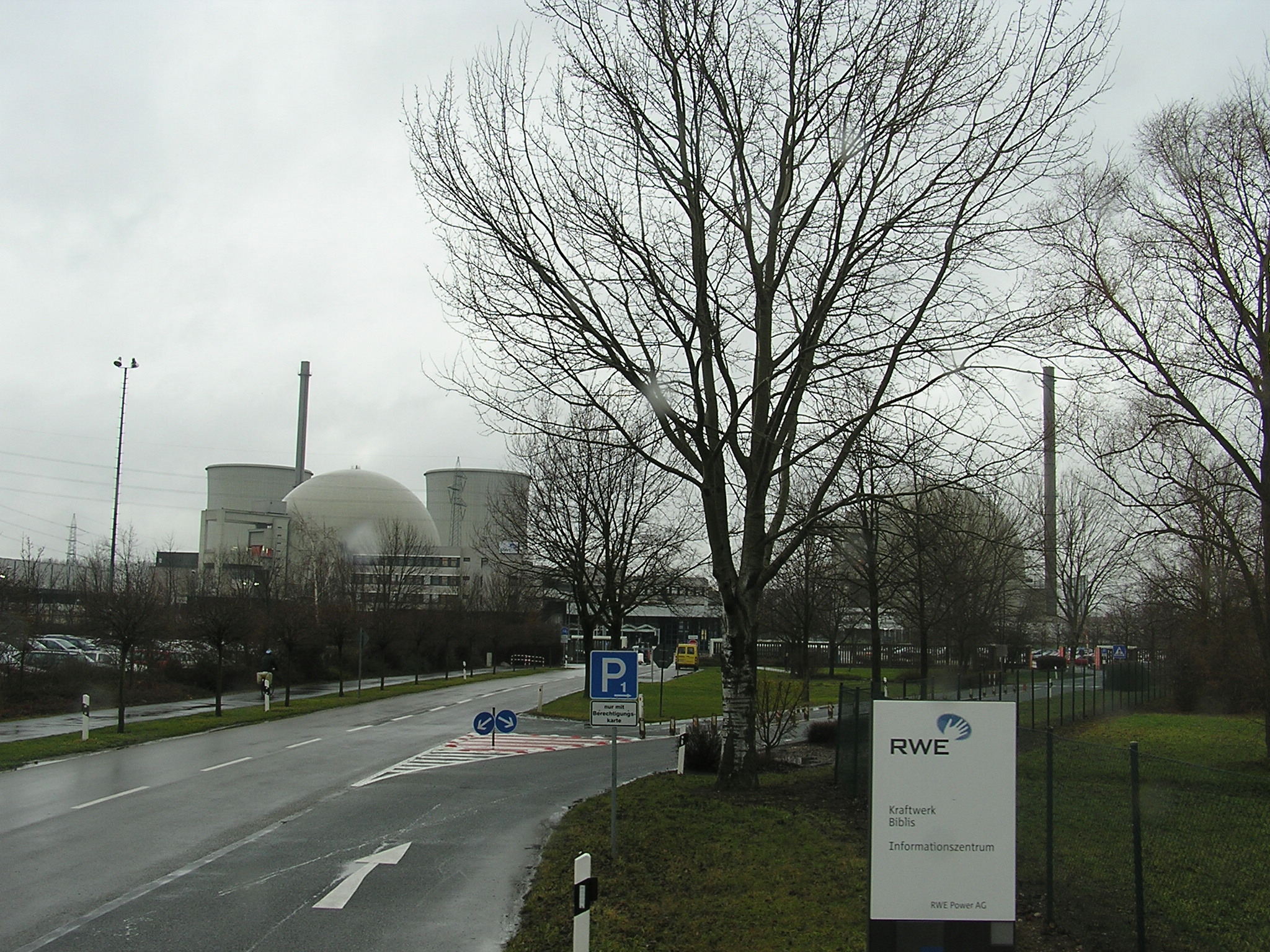 Biblis Nuclear Power Plant